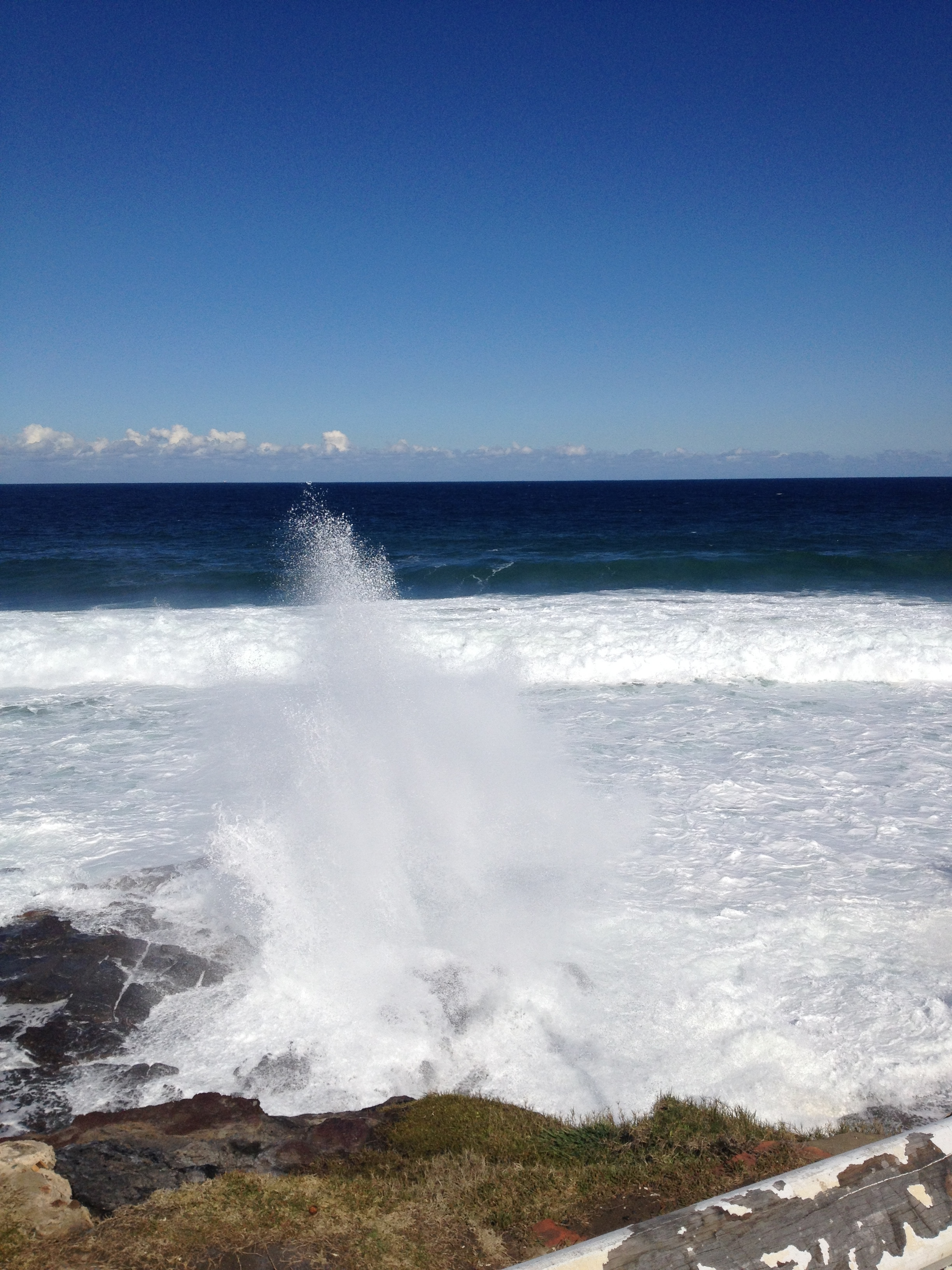 South Pacific Ocean view from Newcastle, New South Wales shores.